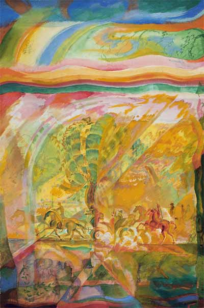 Spring Walk. Paper on cardboard, gouache, tempera, oil. 49,5 × 32,8 cm. The painting is located in the Tretyakov Gallery in Moscow, Russia.